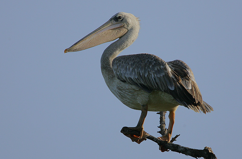 A bird perched on a Red Mangrove tree near Tendaba.